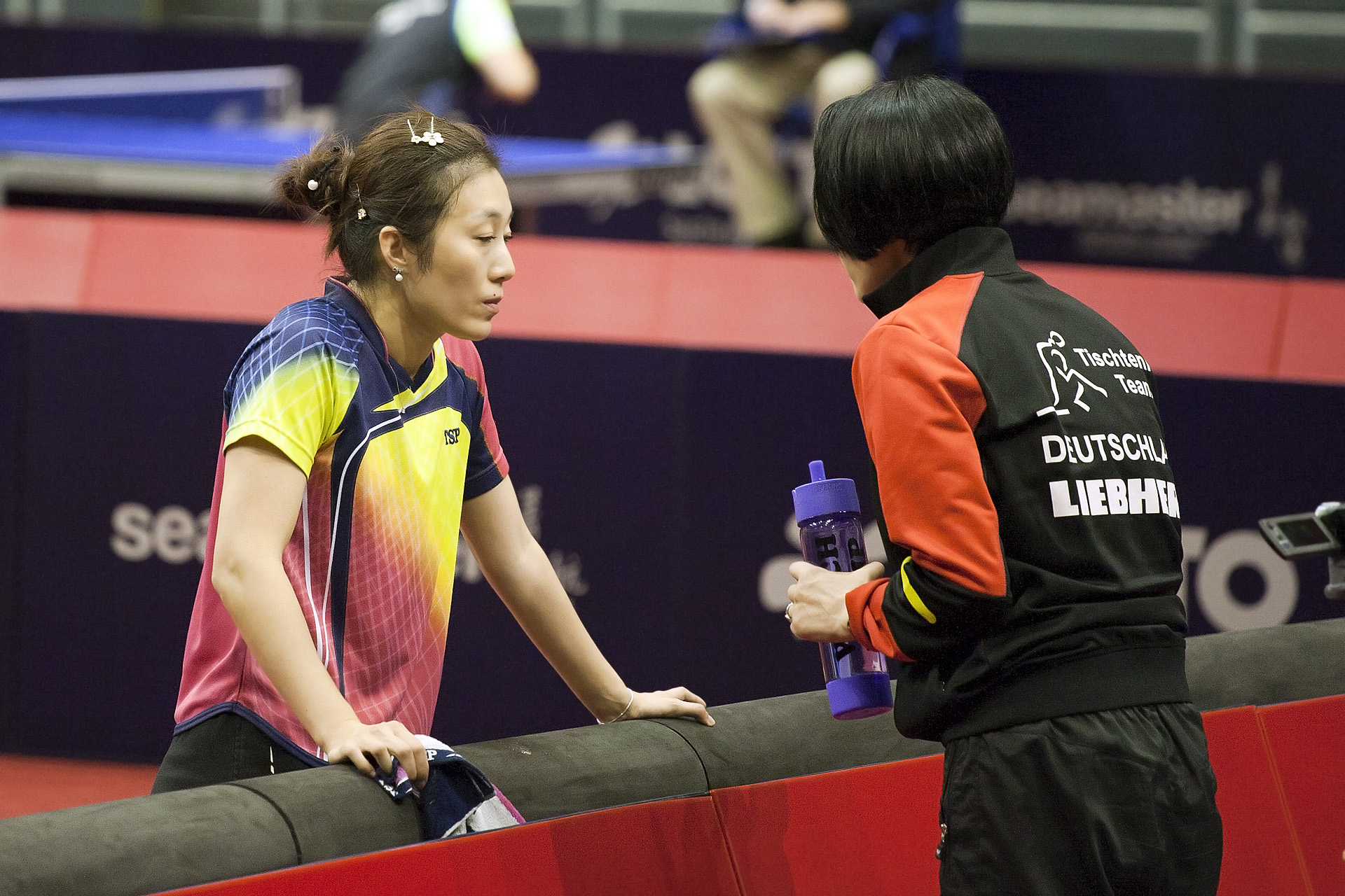 ITTF World Tour 2017 German Open, Magdeburg, Germany, 7 Nov 2017 - 12 Nov 2017, Han Ying